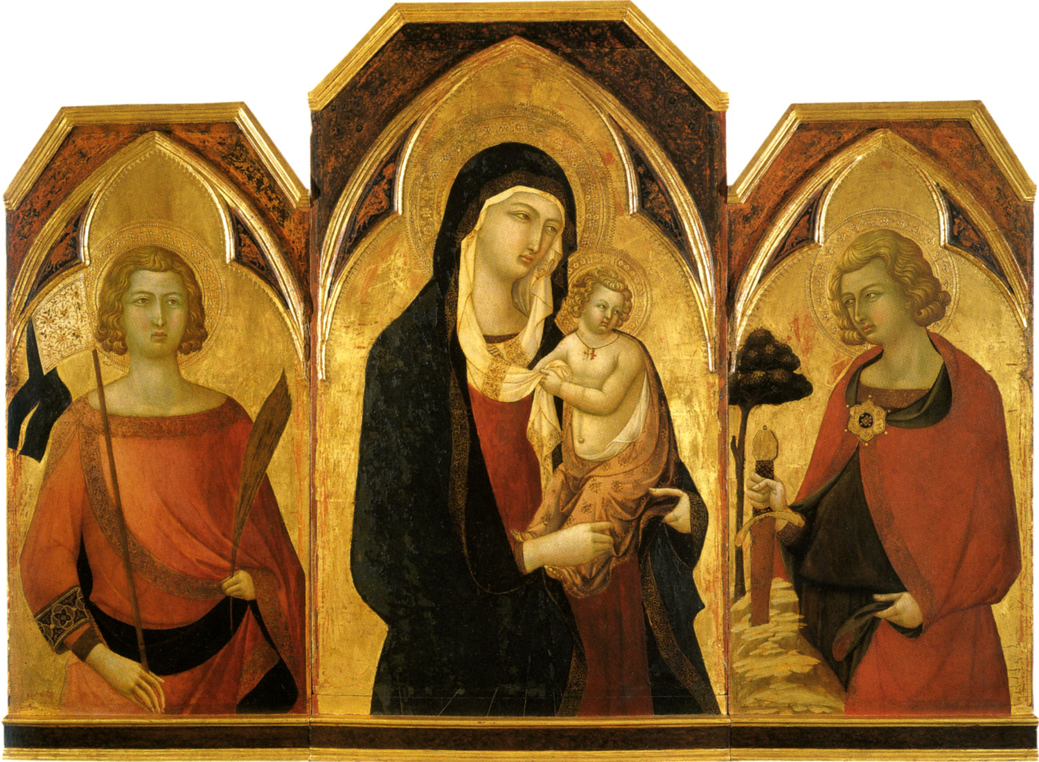 Bartolomeo_Bulgarini._The-madonna-and-child-with-saints._about_1335._Siena,_Pinacoteca_Nazionale